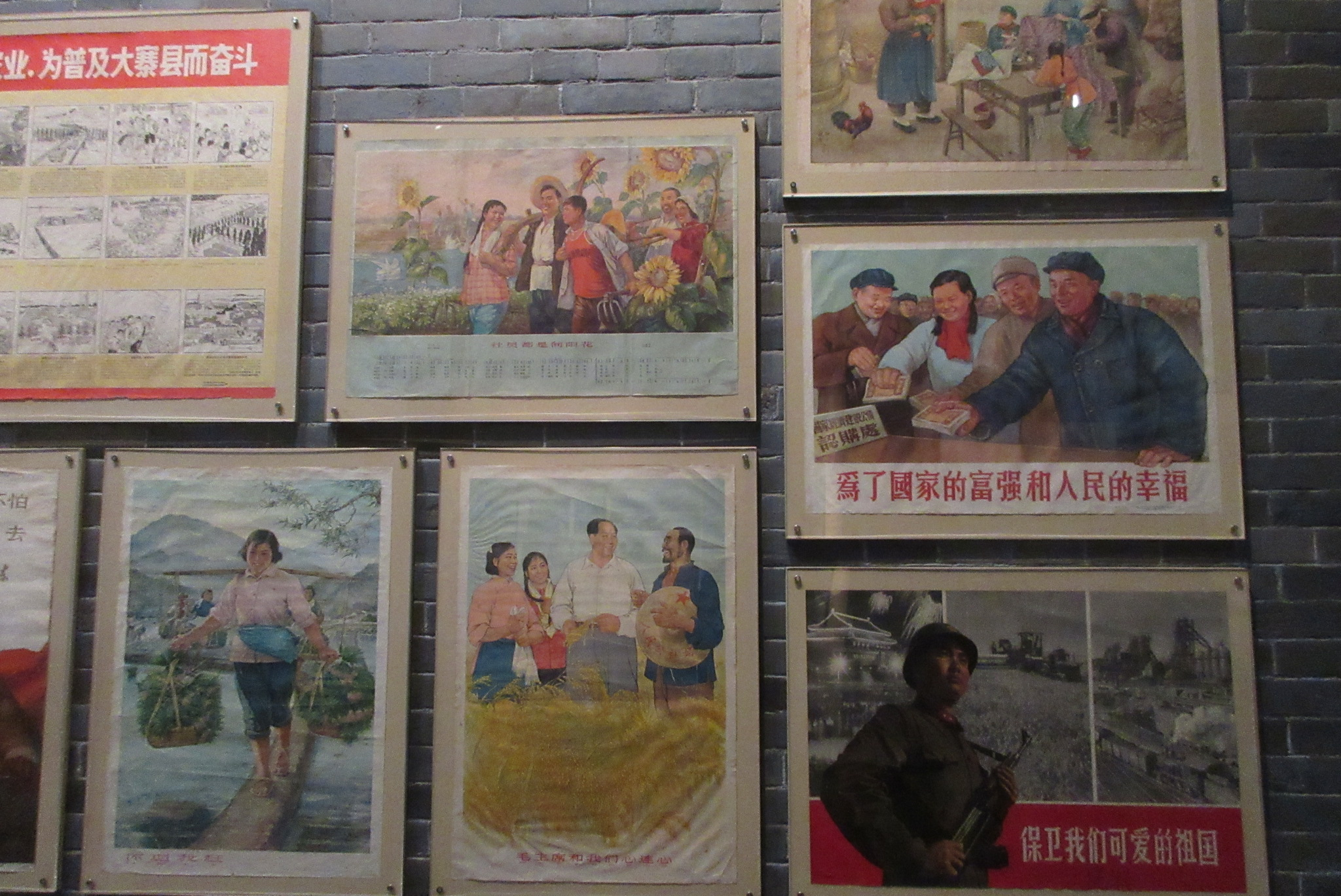 SZ 深圳博物館 Shenzhen Museum 深圳改革開放前歷史展廳 Before Reform and Opening-up History Exhibition Hall 文革時代紅色思想宣傳海布 political posters